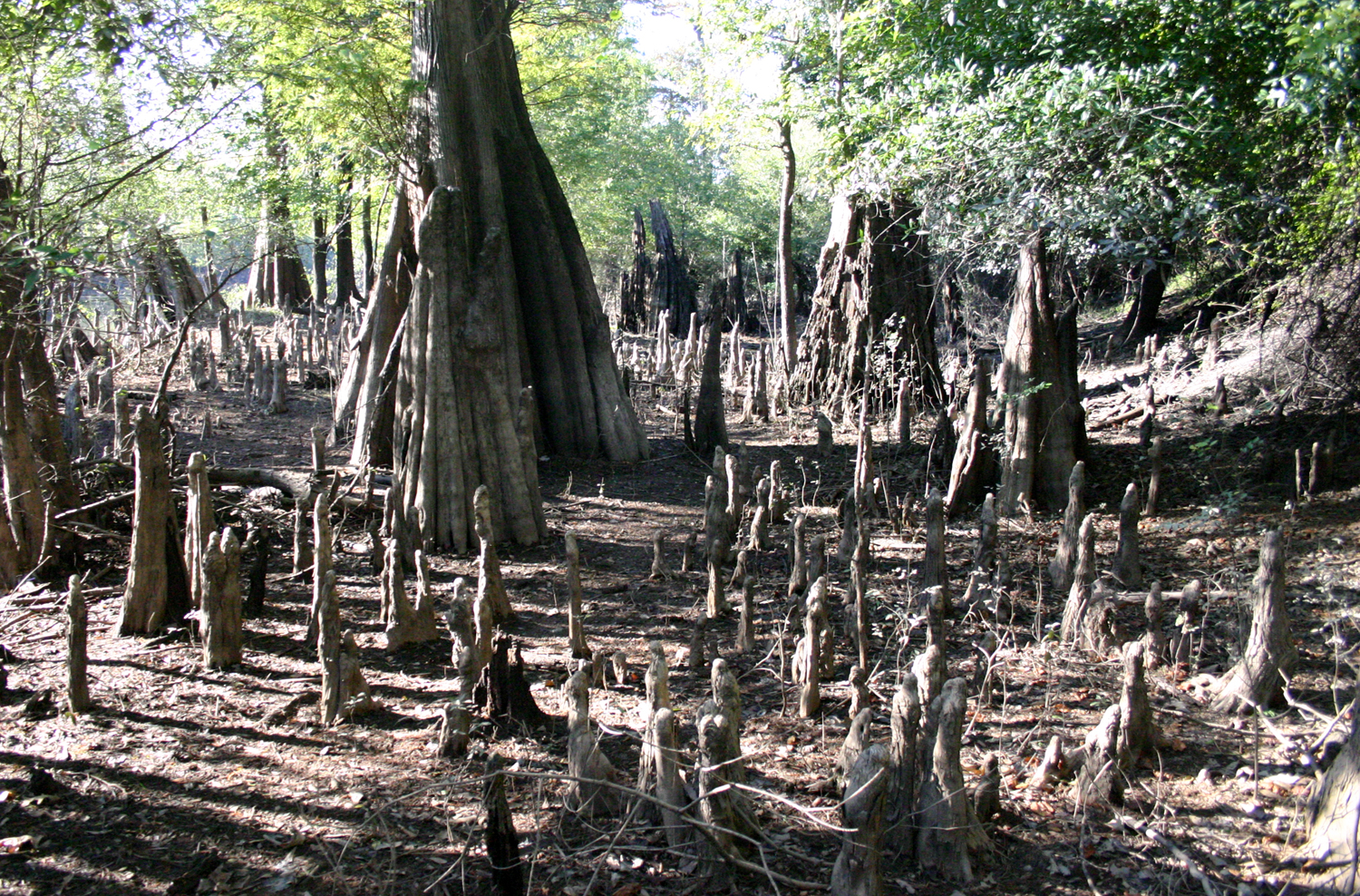 Cypress knees near Wee Tee Lake, in the Santee River valley, South Carolina Image copyleft: Image taken by me, released under GFDL, Pollinator 05:02, 9 February 2006 (UTC)